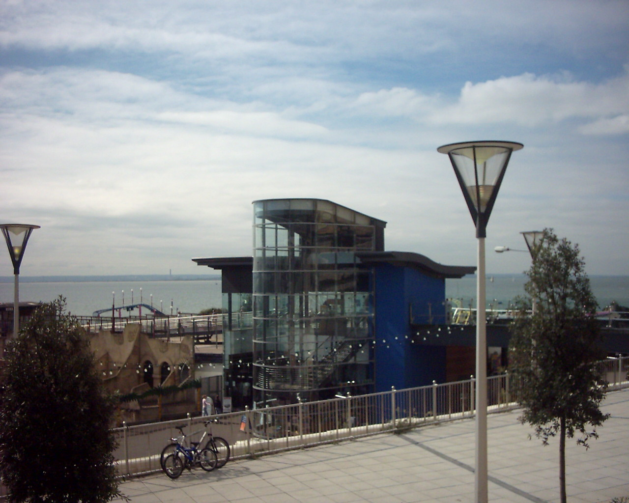 The new shore end of Southend Pier.